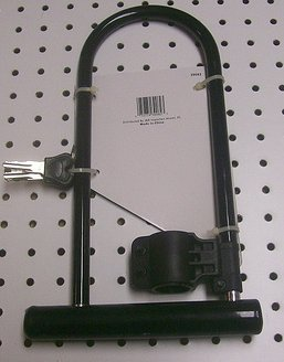 Photo of generic u-lock for bicycle.